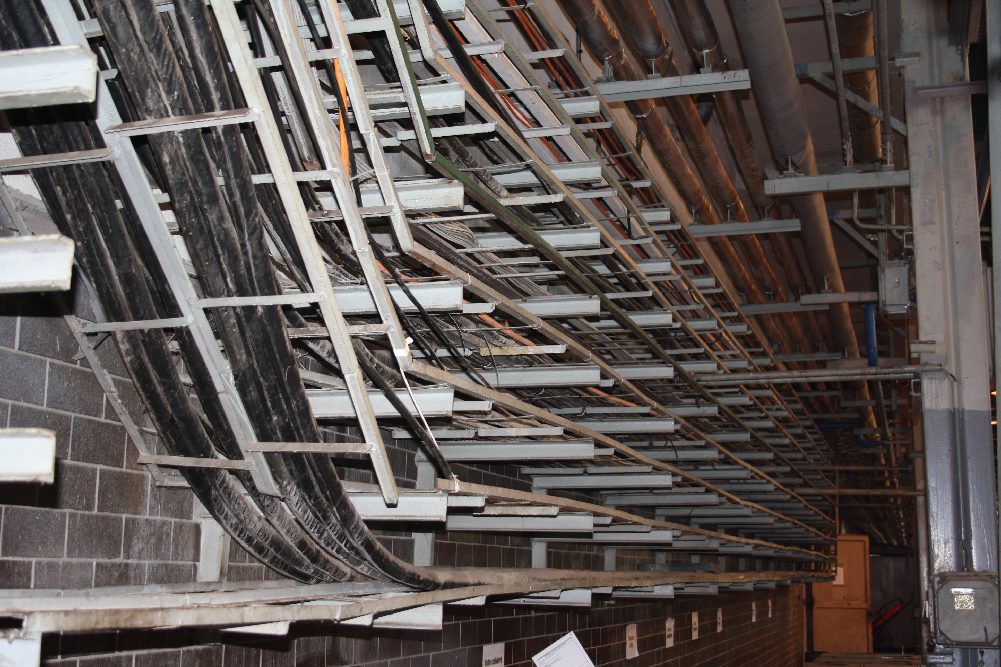 Cable ladder